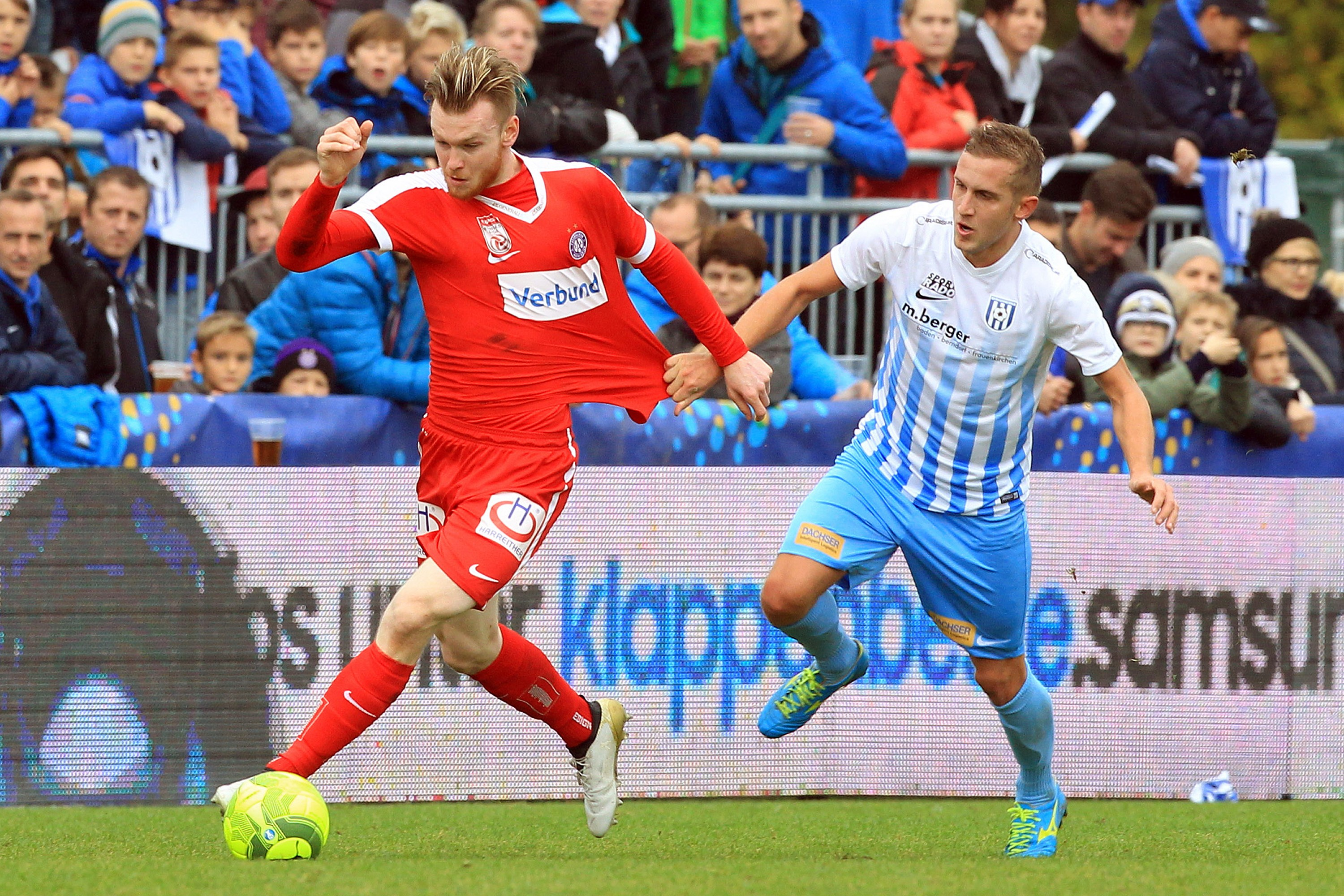 2016–17 Austrian Cup third round: ASK Ebreichsdorf (blue-white shirts) vs. FK Austria Wien (red shirts) 4-5 a.e. (3-3, 0-2) at 2016-10-26 in Ebreichsdorf — The photo shows Kevin Friesenbichler (left) in duel with Marco Anderst (right).